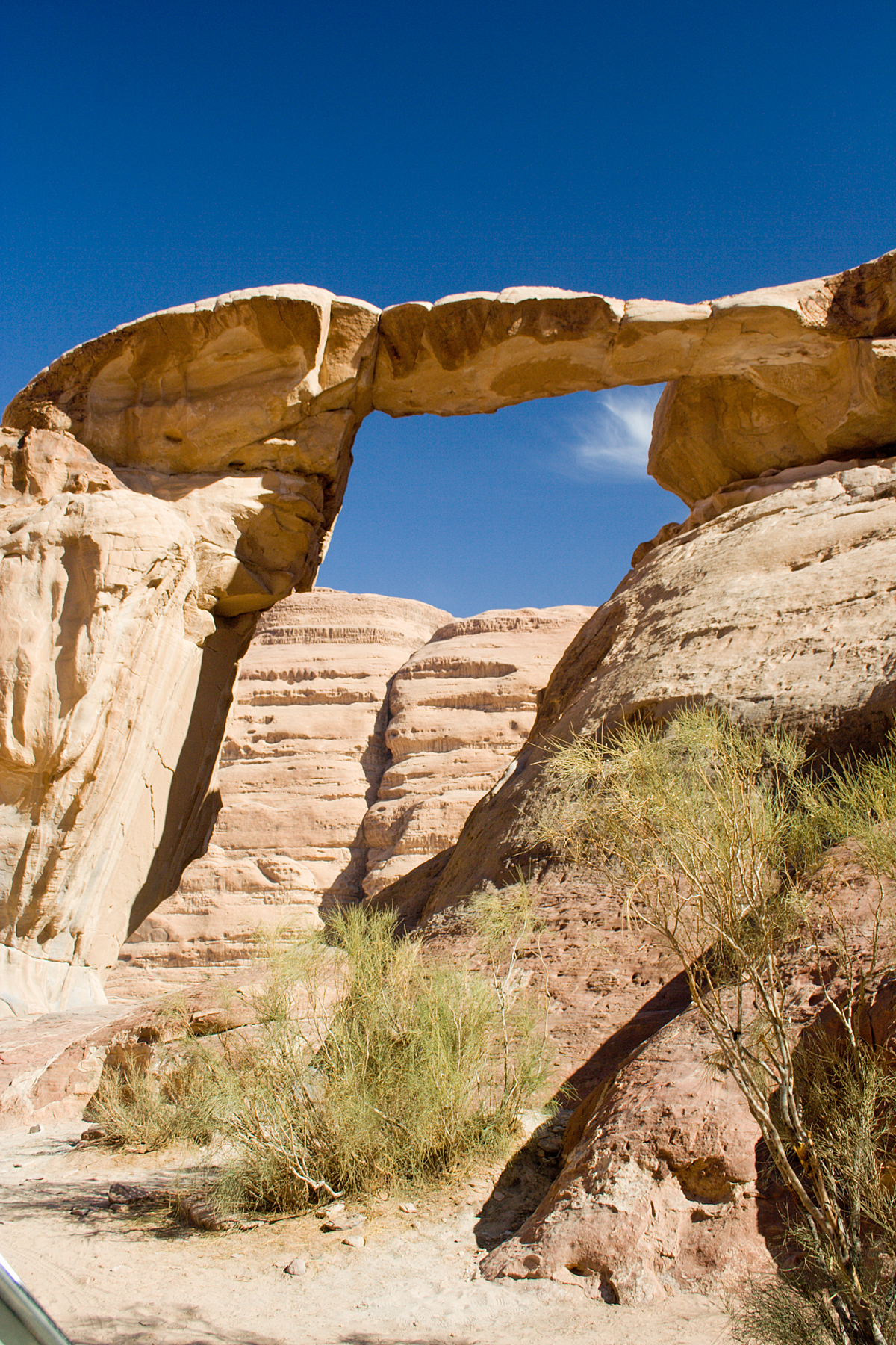 Jabal Umm Fruth Rock Bridge is one of several rock bridges in Jordan's Wadi Rum.